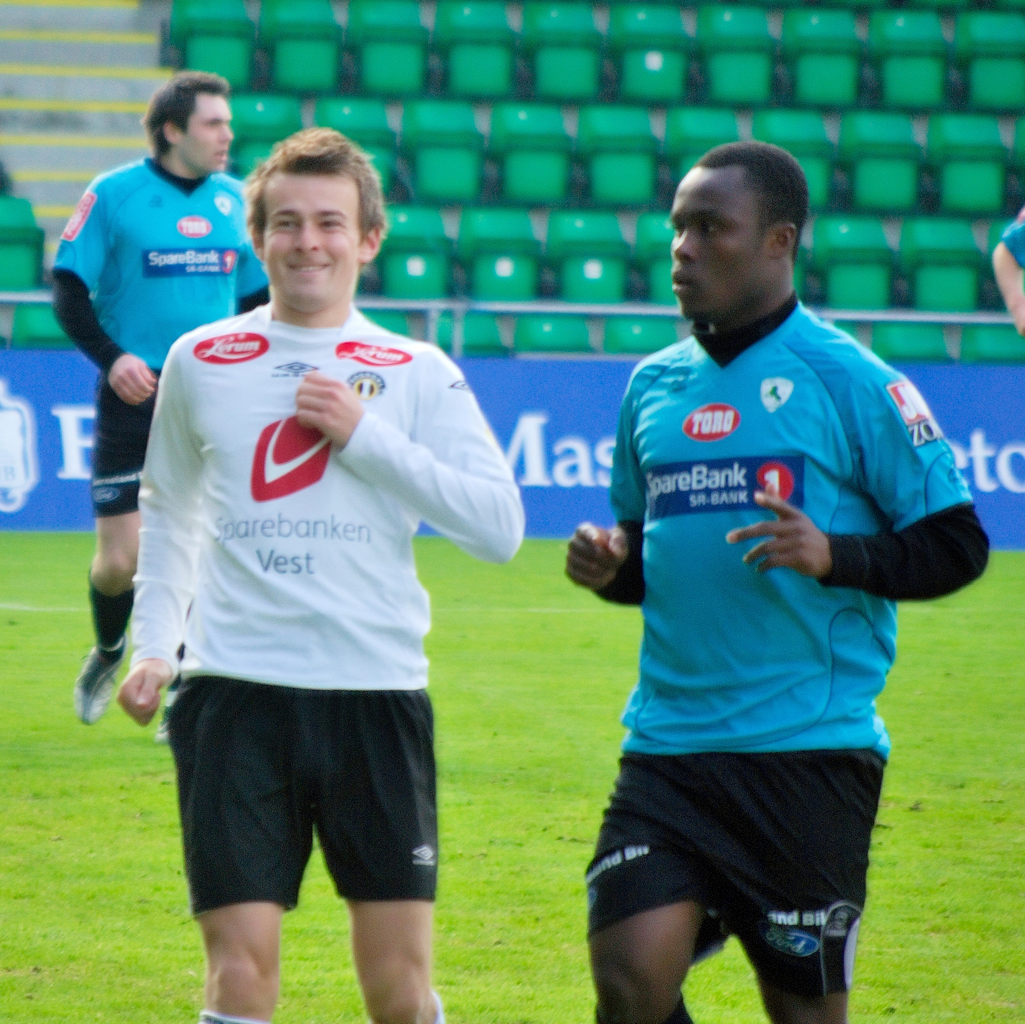 Henrik Luggenes Furebotn (left) and Paul Addo.